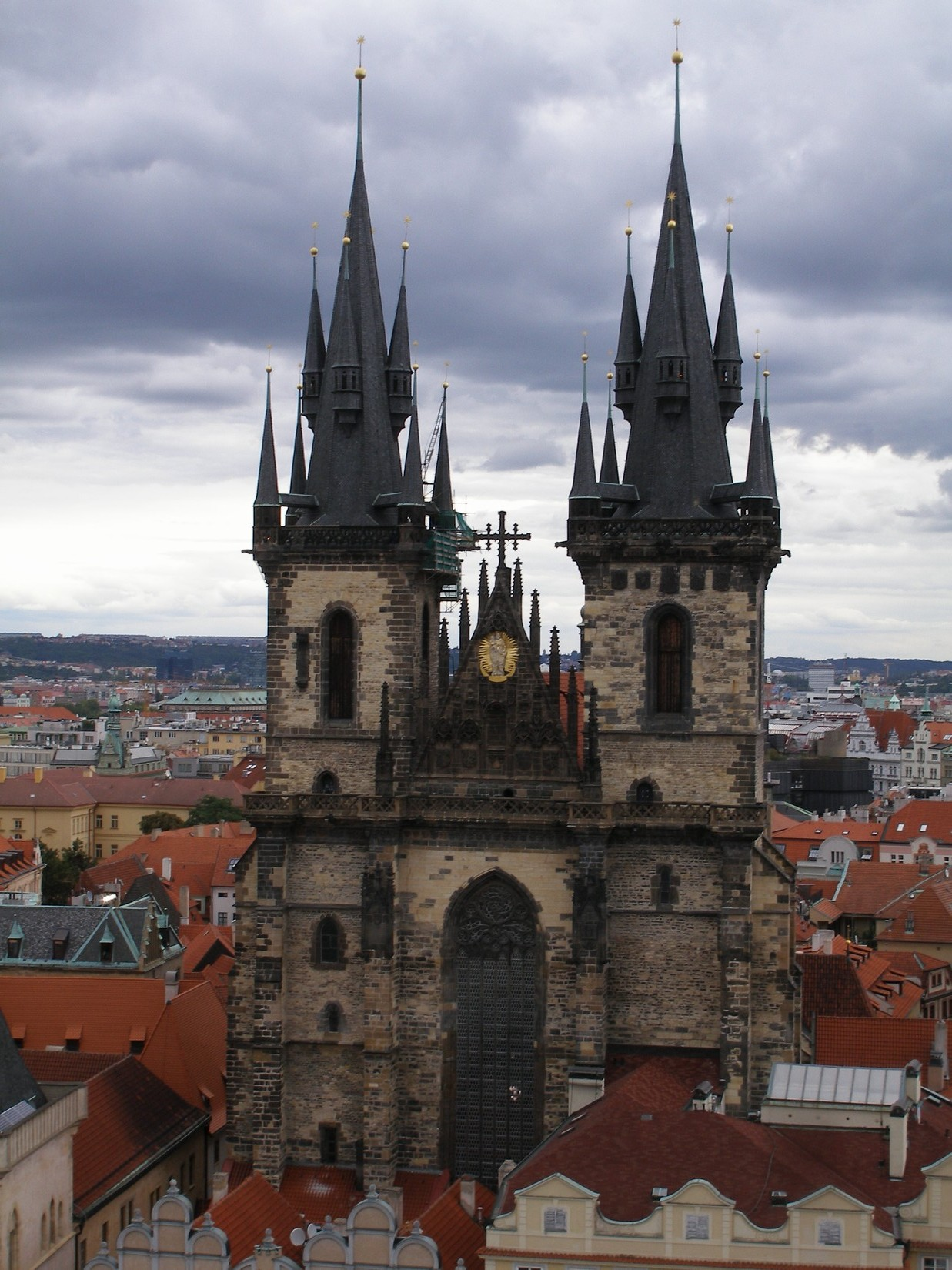 Church of St. Mother before Týn in Prague, Bohemia, Czechia